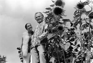 James Mason